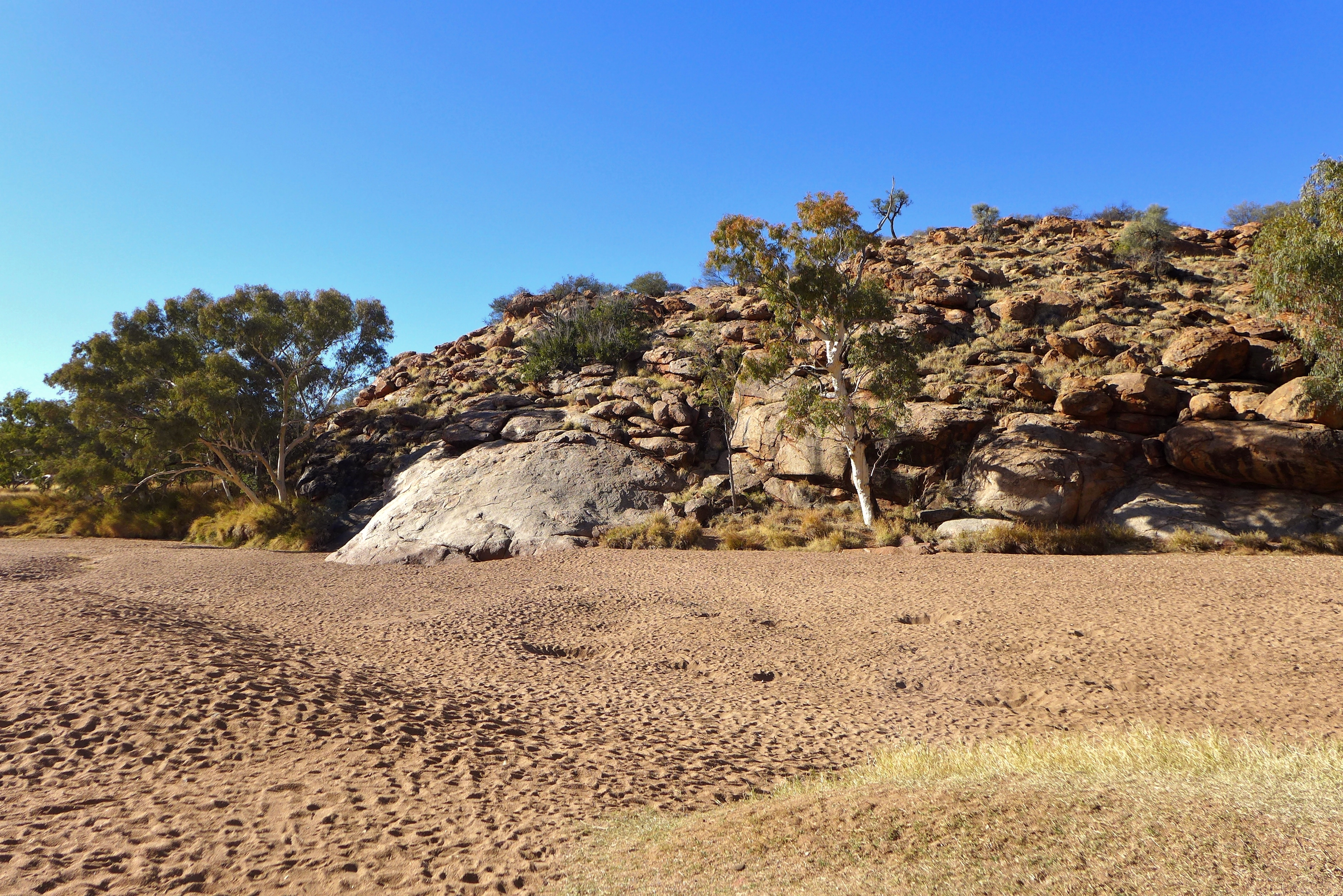 View of the Todd River at the old telegraph station at Alice Springs, NT, Australia. This is the actual site that was named Alice Springs, after the wife of Sir Charles Todd, although the town now bearing that name is further downstream.